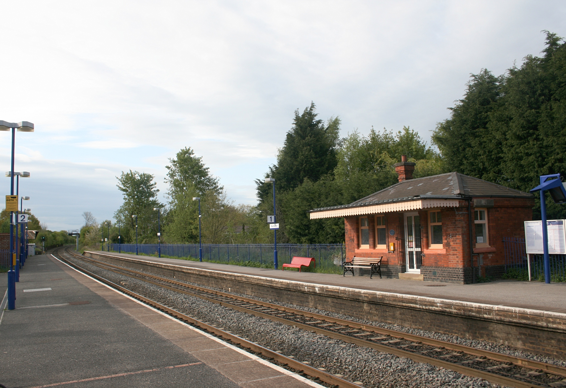 Saunderton railway station, facing west towards Princes Risborough.